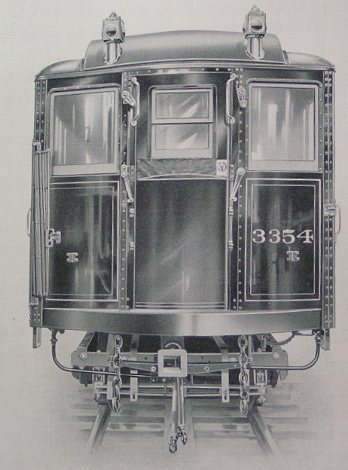 Drawing of an all-steel Gibbs IRT subway car